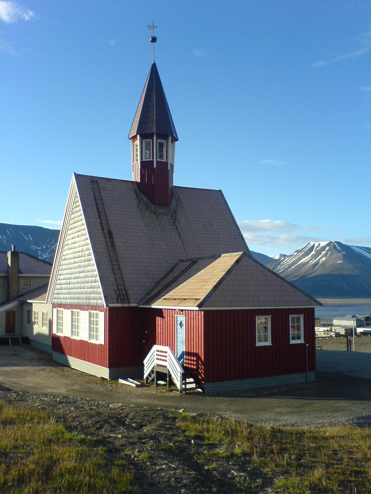 The church in Longyearbyen, Svalbard (Spitsbergen)